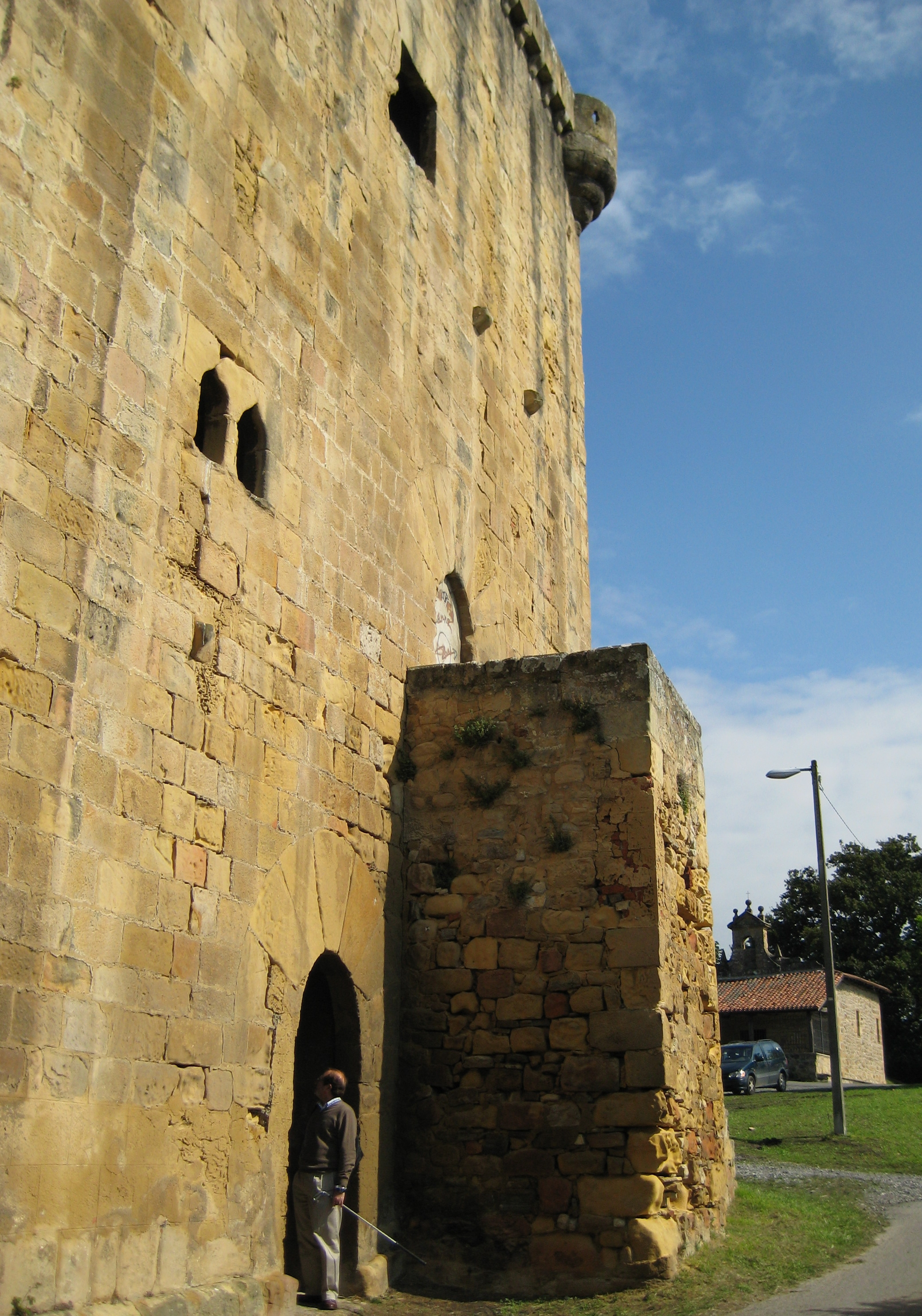 Martiartu tower and St. Anthony's hermit, Erandio, Biscay